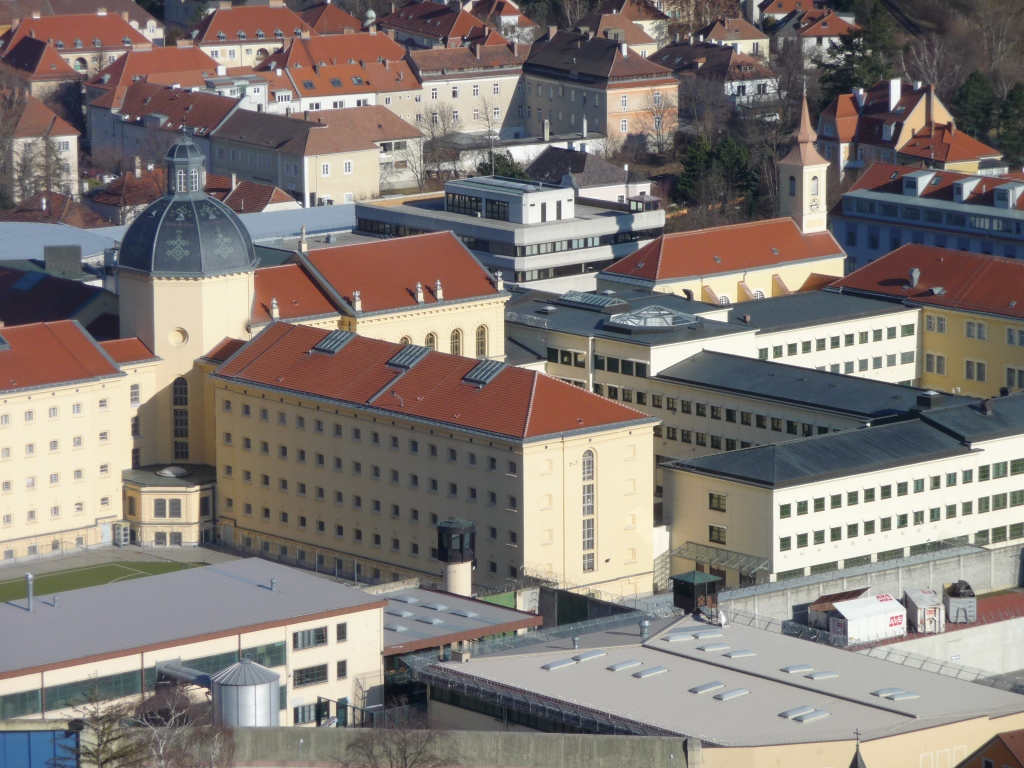 View of the central part of the Stein prison (part of Krems an der Donau, Austria).